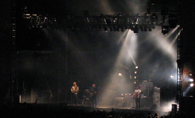 Pixies at Bumbershoot